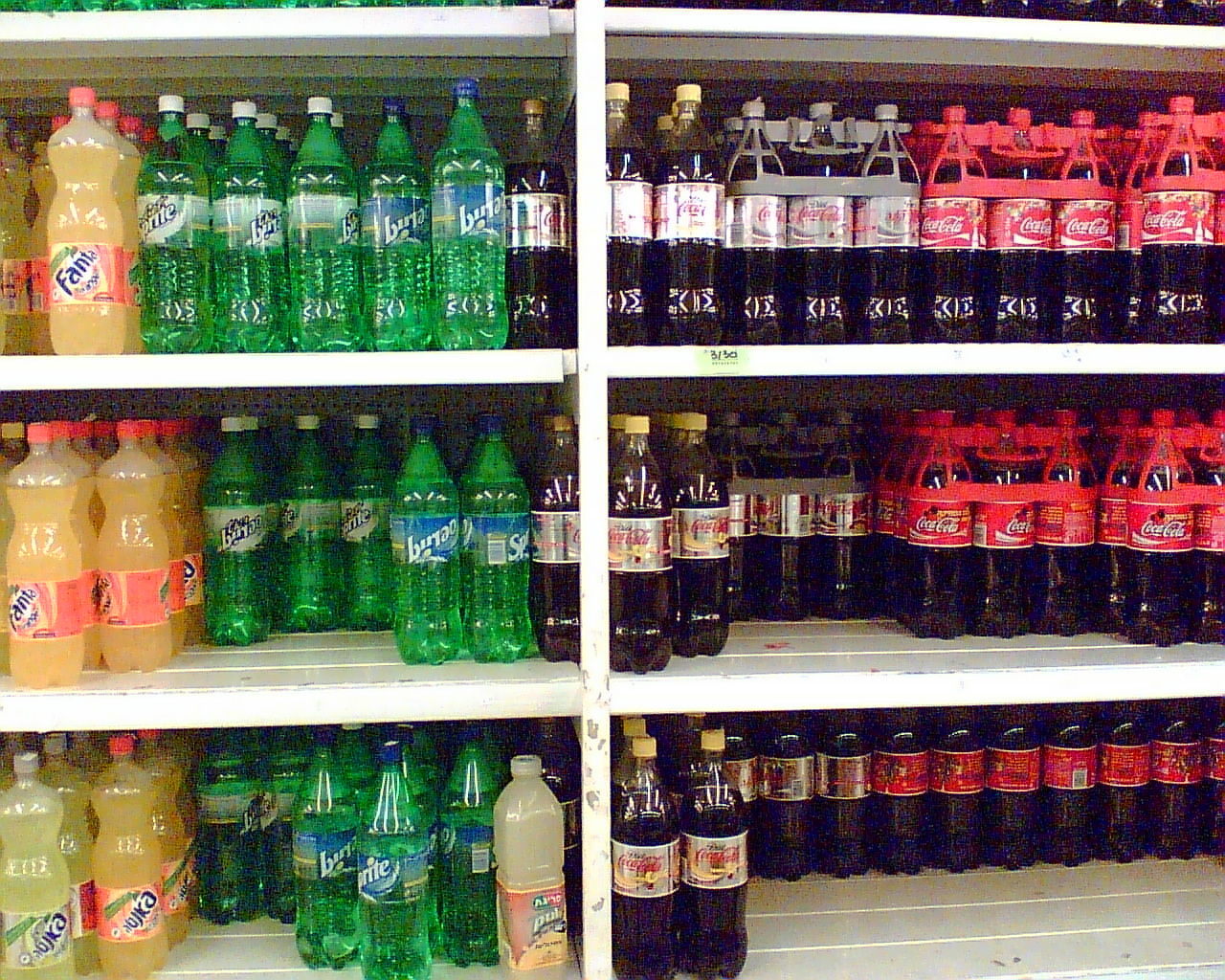 Coca-Cola in an Israeli shop